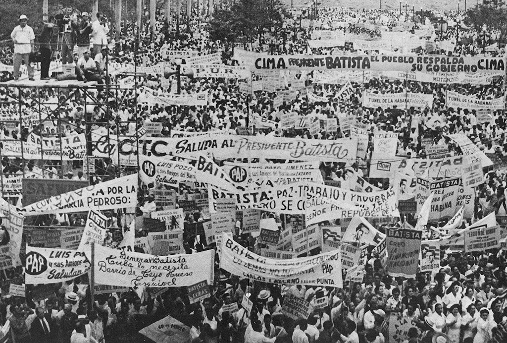 Presidential Palace Attack Redress Demonstration, Havana_April 8, 1957